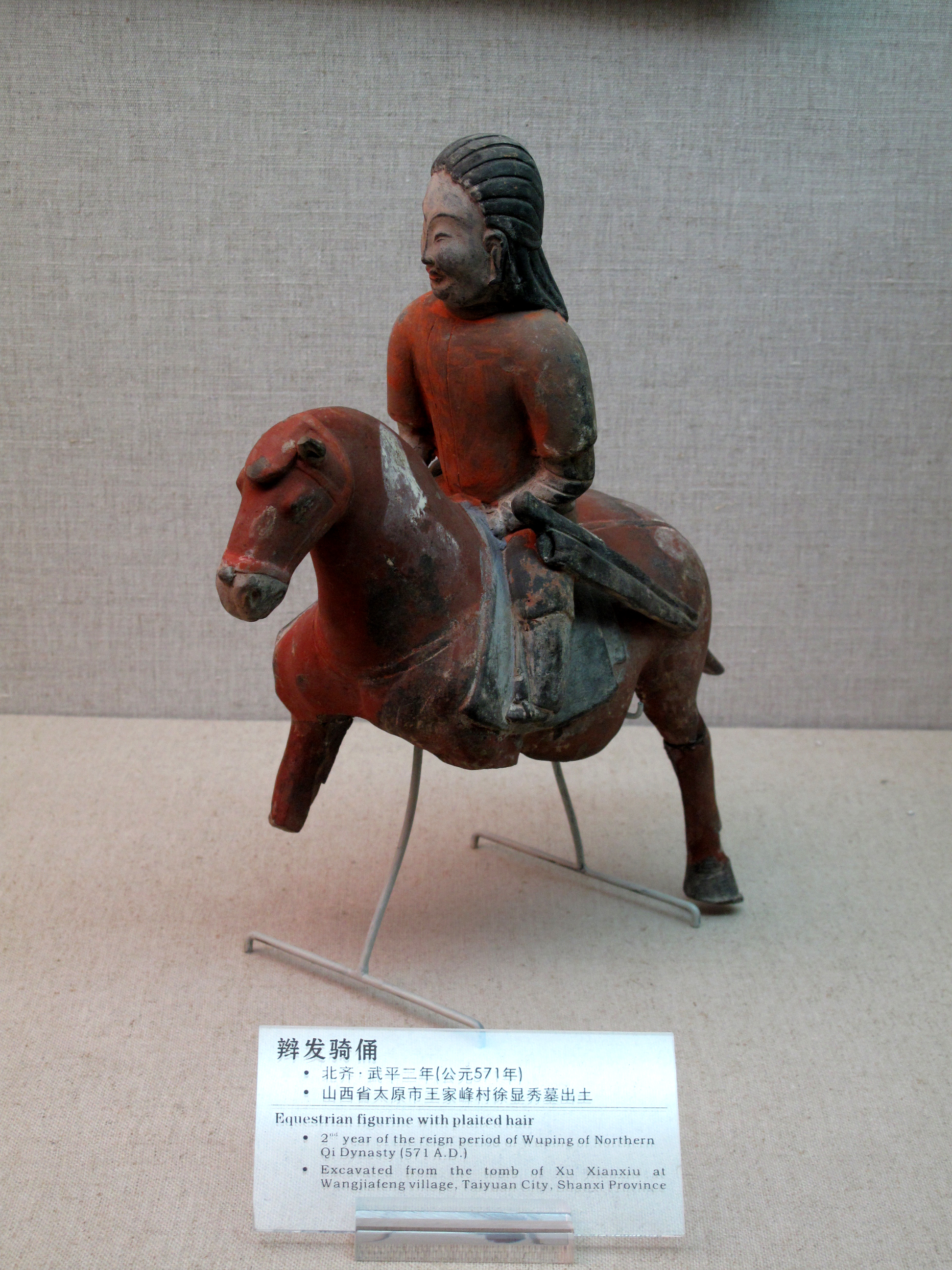 Easy Rider. Northern Qi dynasty. Tomb of Xu Xianxiu, 571 AD. Shanxi Museum The interest here is in the nomadic rider's flowing hair and costume, with a sheath for a quiver of arrows hanging at his side. It was horses and arrows that enabled the nomads to conquer China.